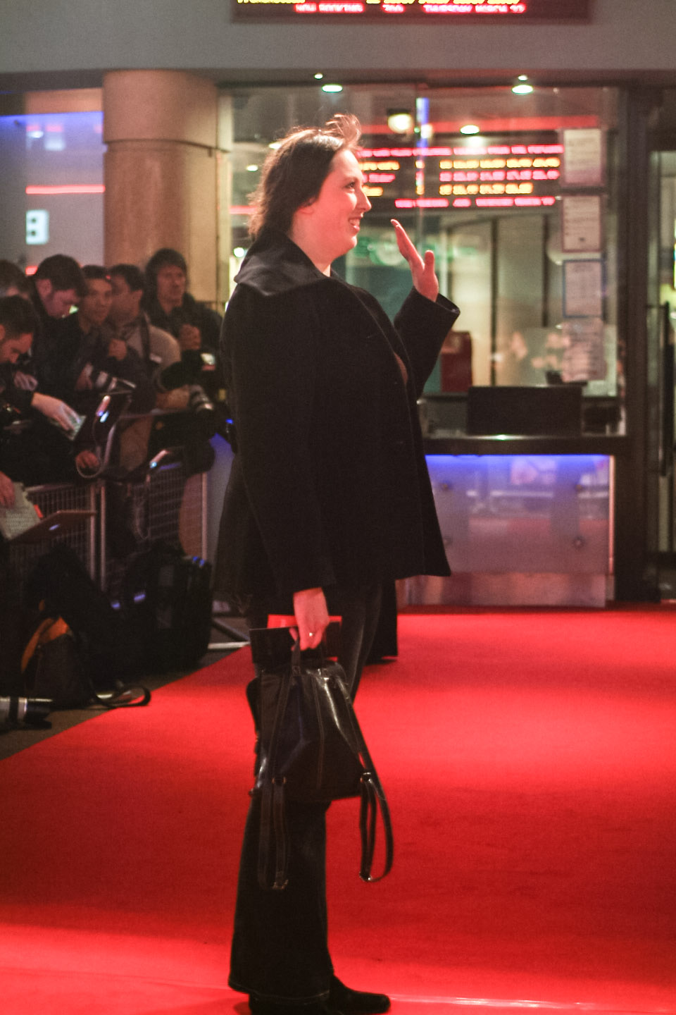 Miranda Hart at the I want Candy London Movie Premiere